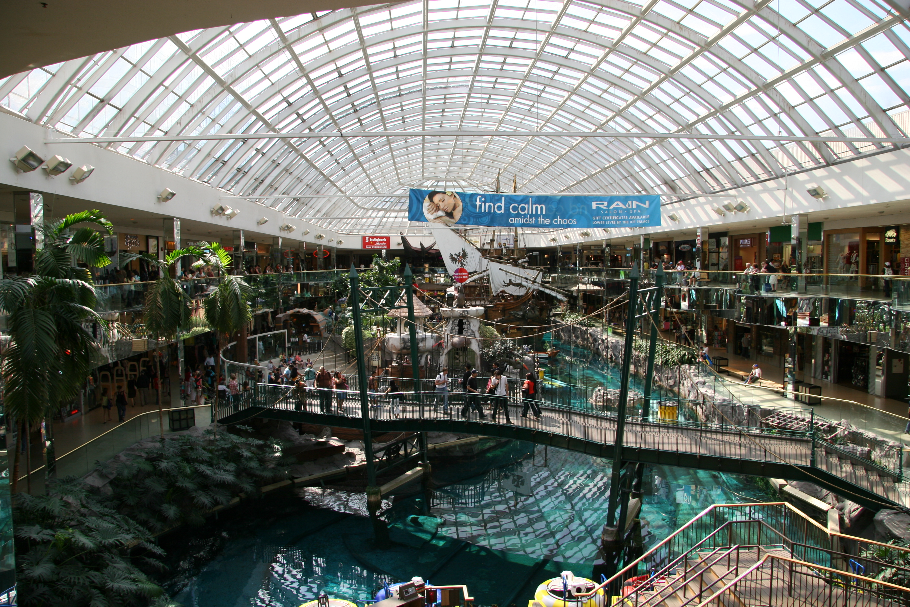 West Edmonton Mall